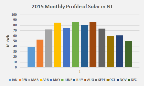 2015 Monthly Profile of Solar for NJ[1]